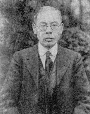 Takaji Komatsubara, current director of the Eighth Higher School.